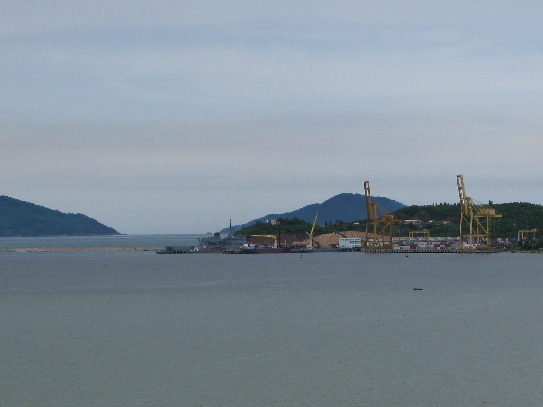 Tien Sa Port, Danang, Vietnam. Taken from Thuan Phuoc Bridge.